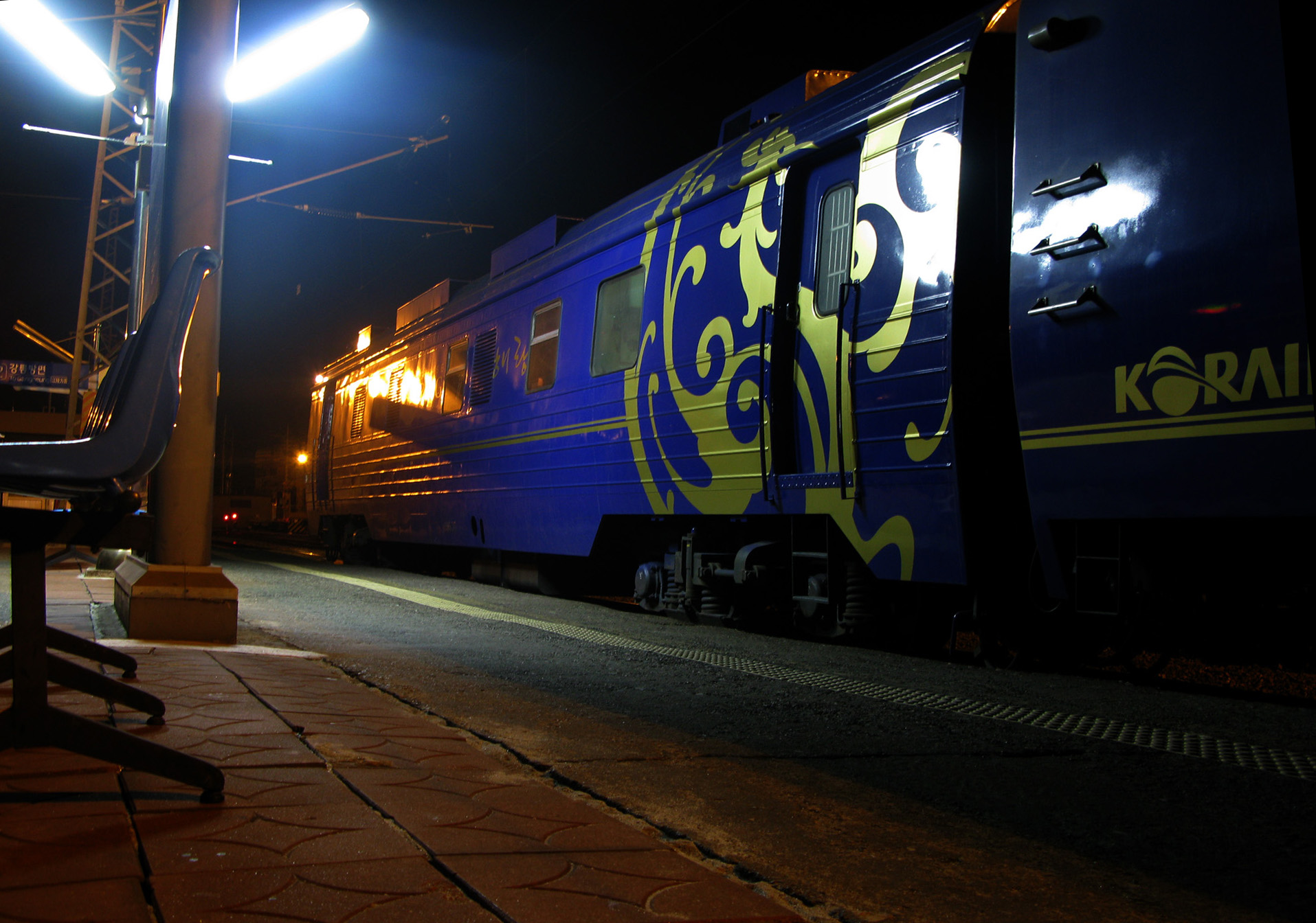 Generator Car of Haerang (Korail's Sightseeing Train)